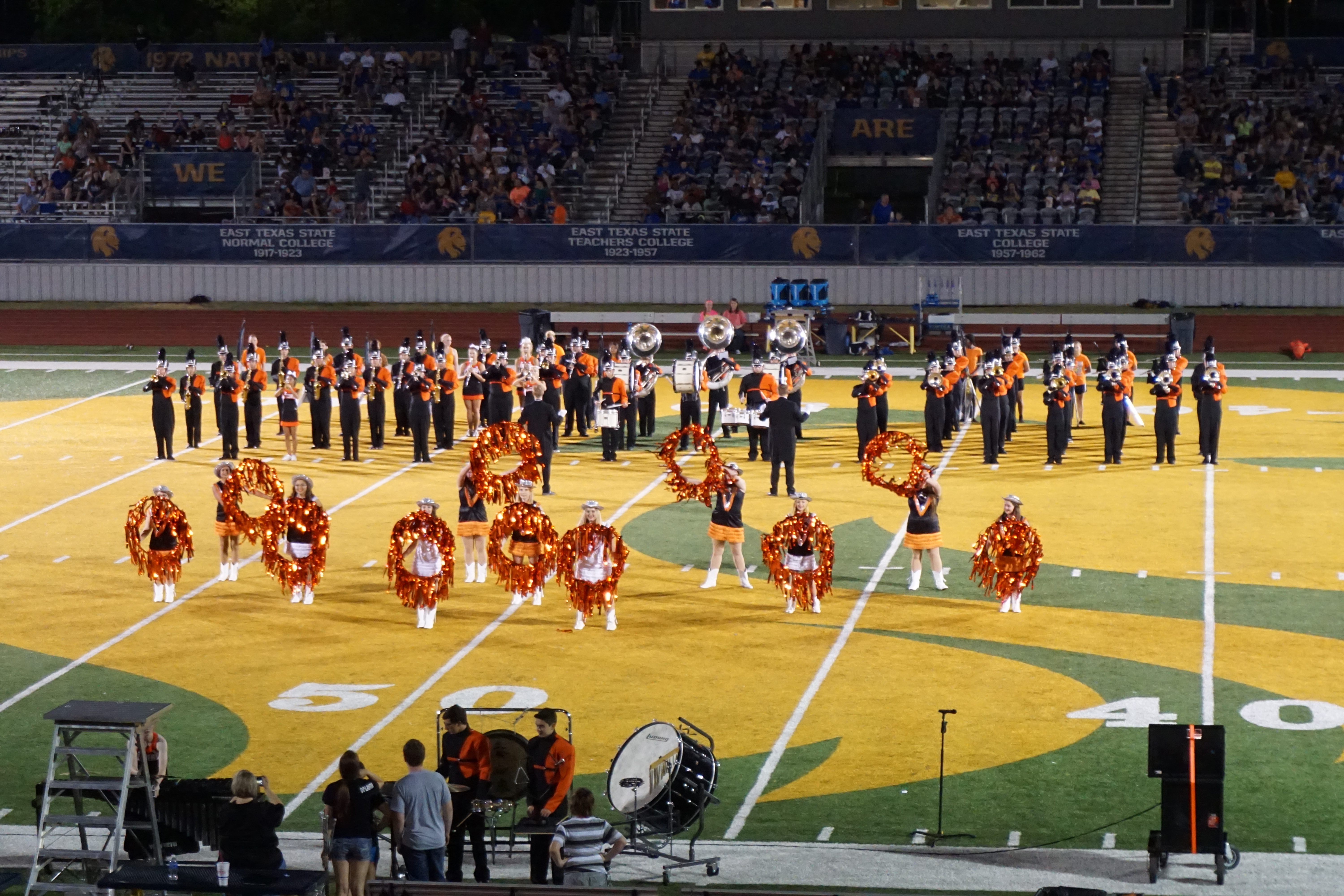 The Commerce High School Roarin' Tiger Band performing during halftime of the North Lamar Panthers vs. Commerce Tigers high school football game at Memorial Stadium in Commerce, Texas (United States). North Lamar won 48–25.